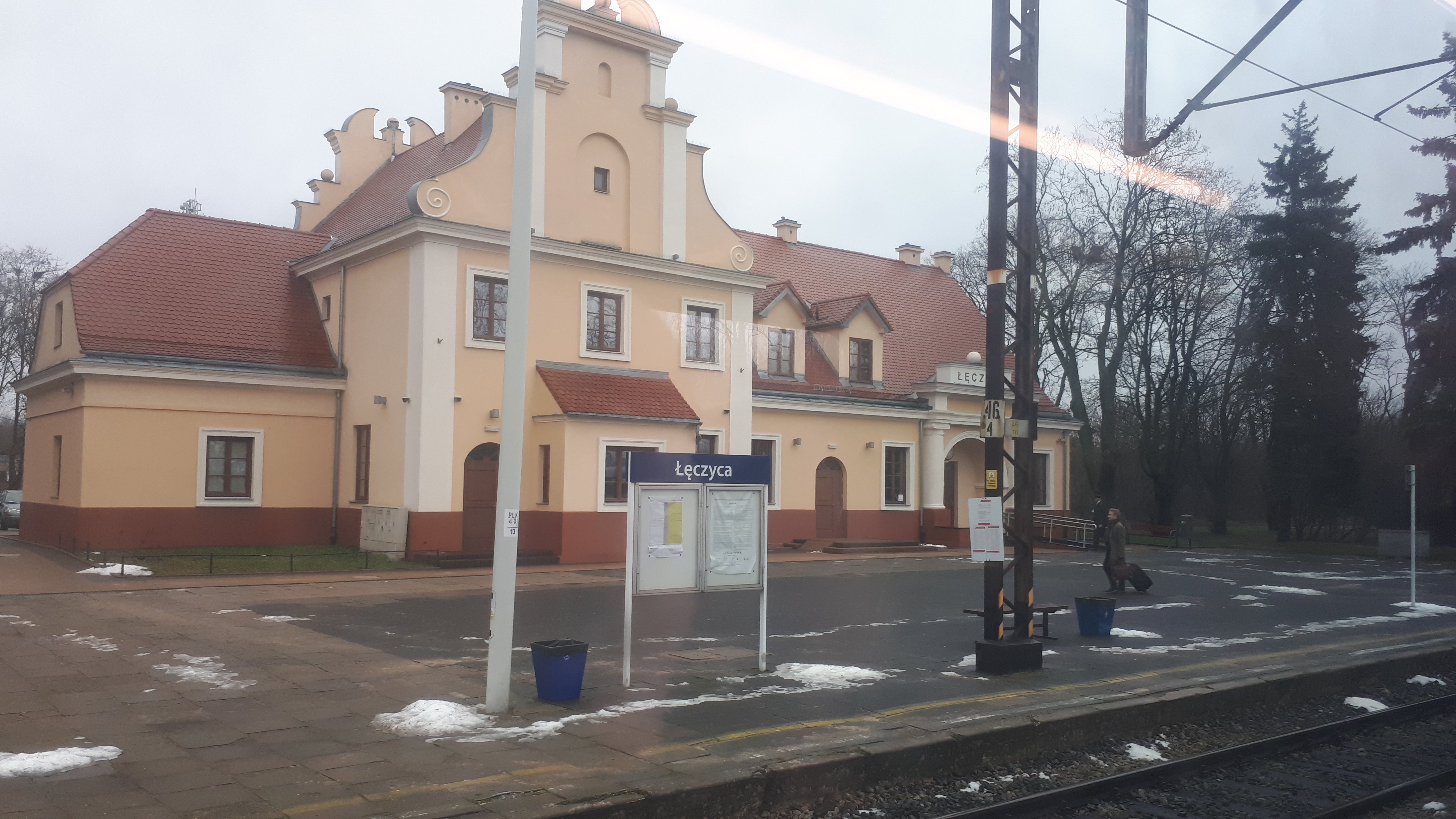 Train station in Łęczyca